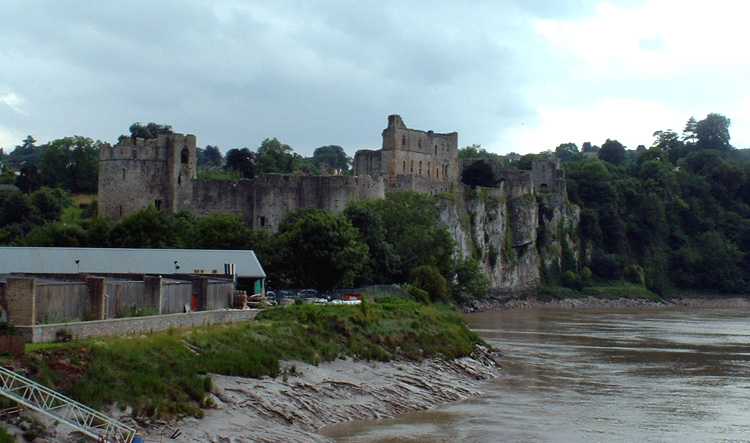 Chepstow Castle, Monmouthshire, from the River Wye